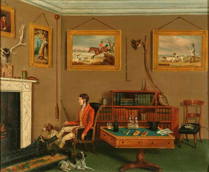 John Mytton, artist unknown, c. 1820-1830, oil on canvas - Shrewsbury Museums Service.